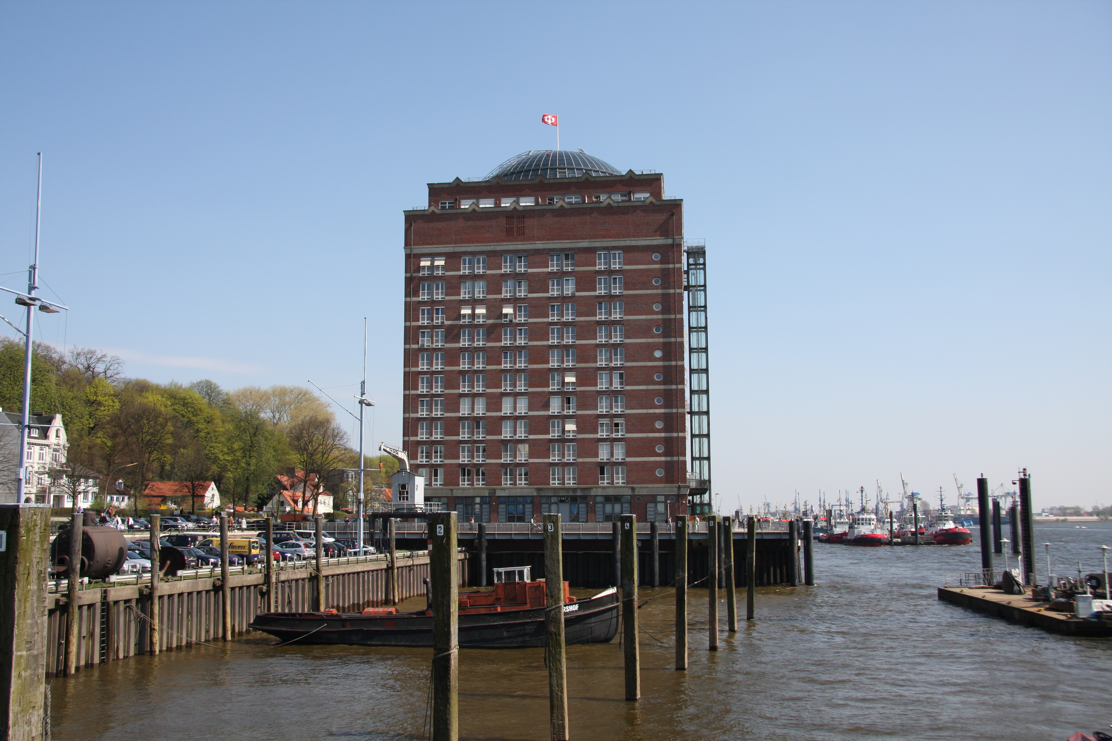 The former Union-Cooling storage in Hamburg-Ottensen